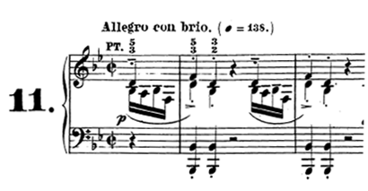 Incipit from the Piano Sonata No. 11 (Beethoven) in B-flat major, Op.22.